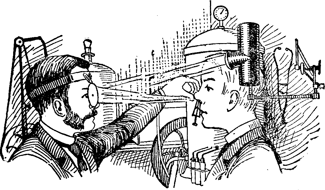 A historic drawing of a doctor using a head mirror to examine a patient.